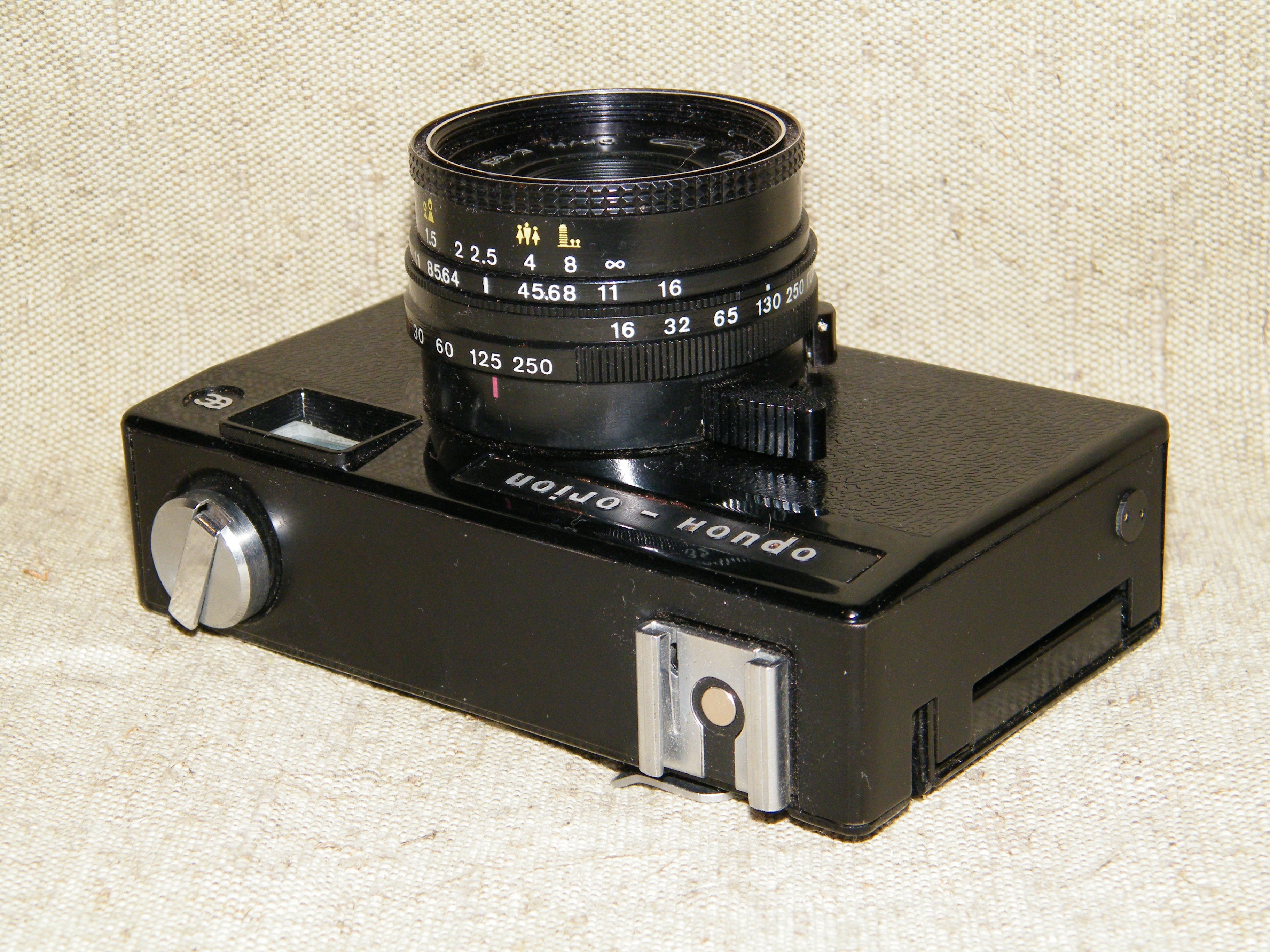 Orion EE